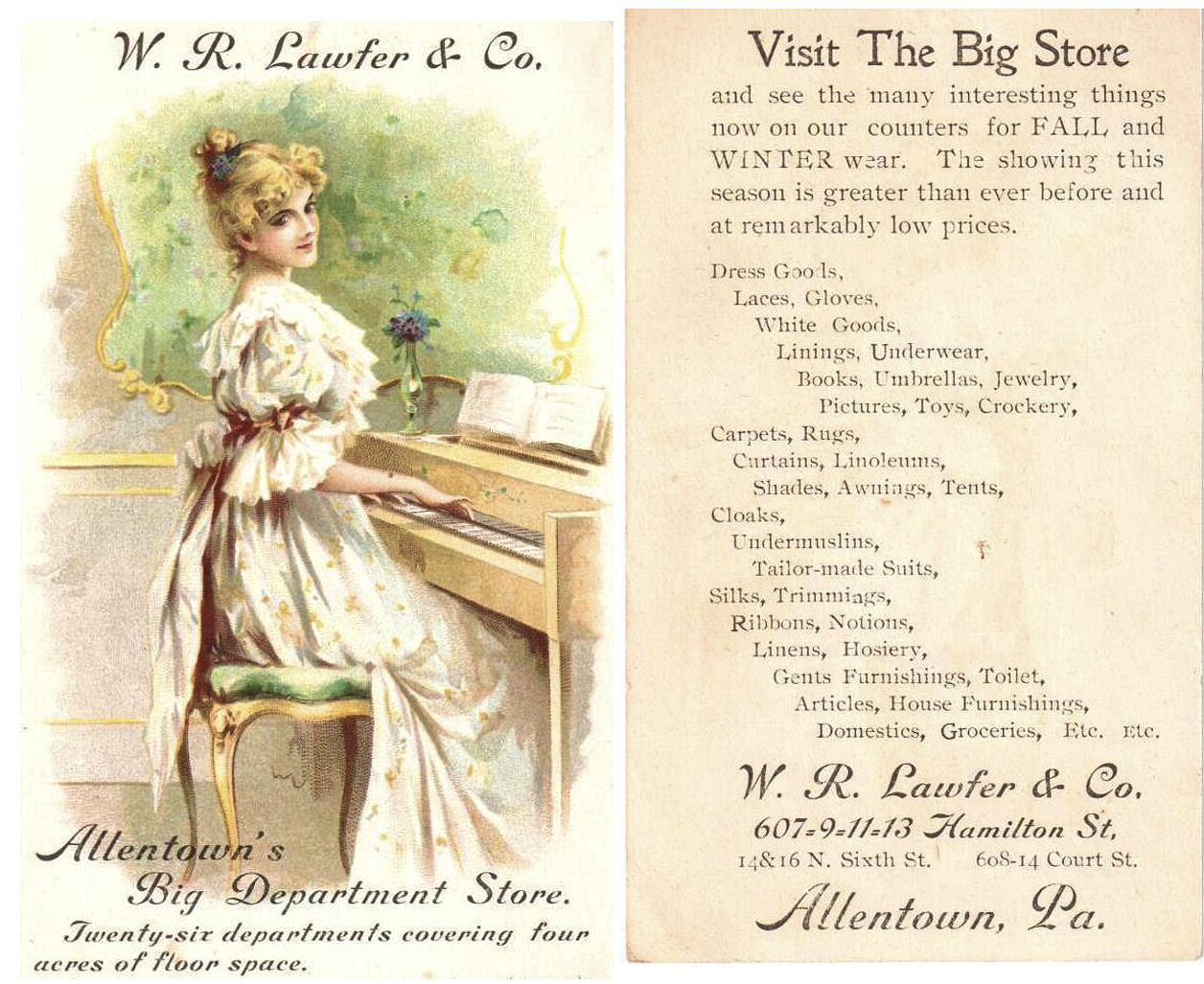 1905 - W R Lawfer & Co - Trade Card